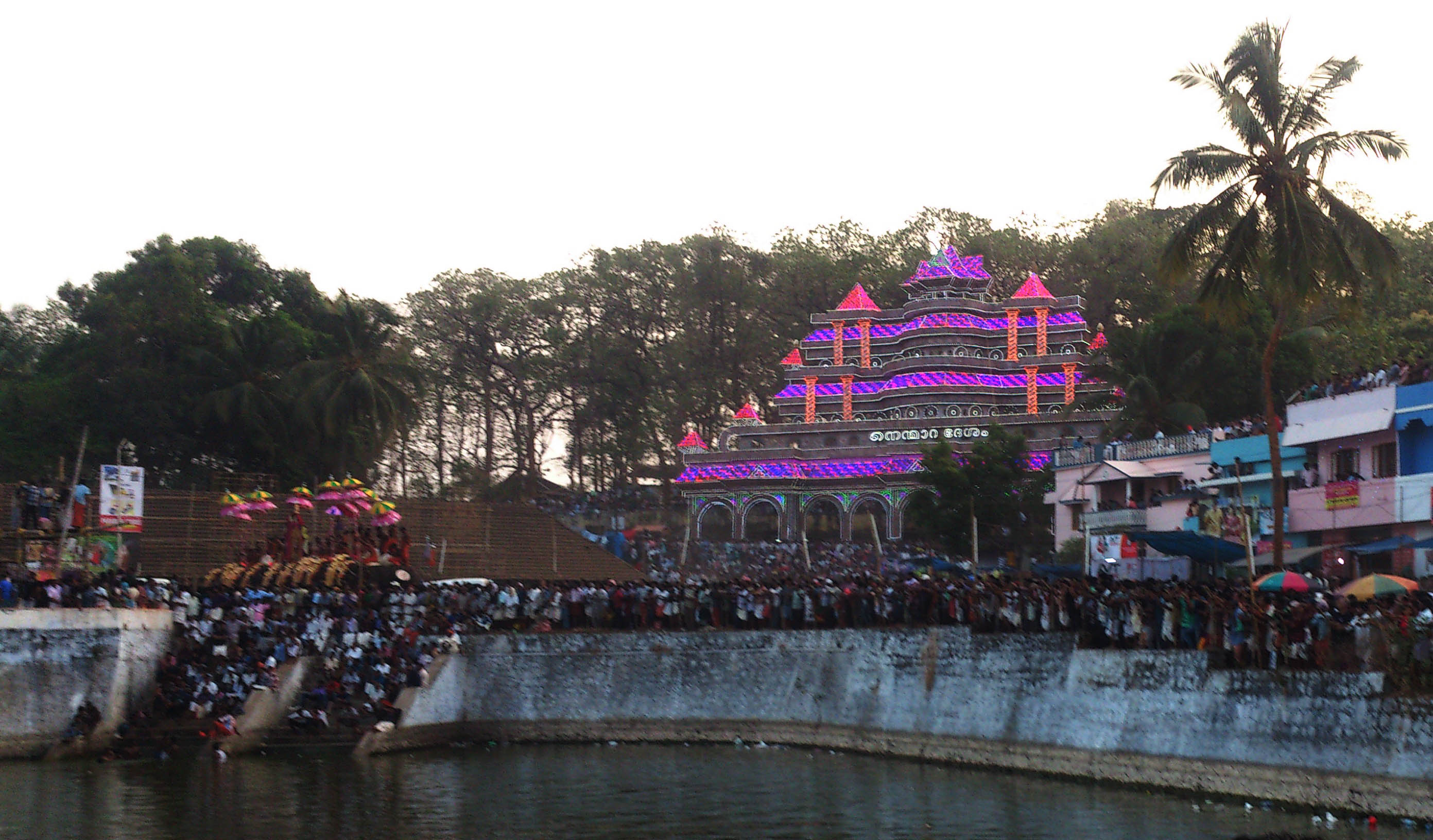 Panthal by Nemmara desham,2014